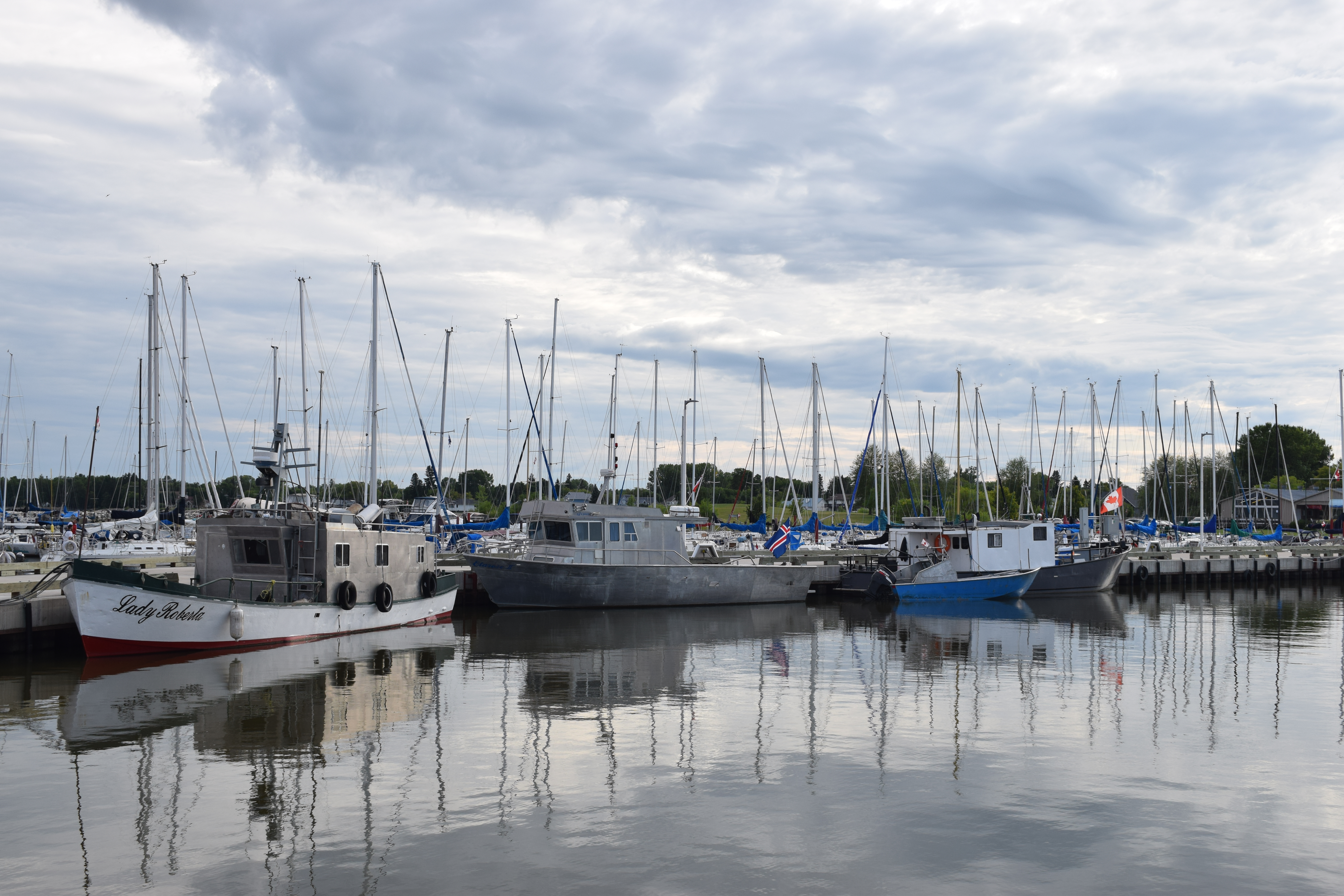 Looking at the fishing vessels in Gimli Harbour on a cloudy day.